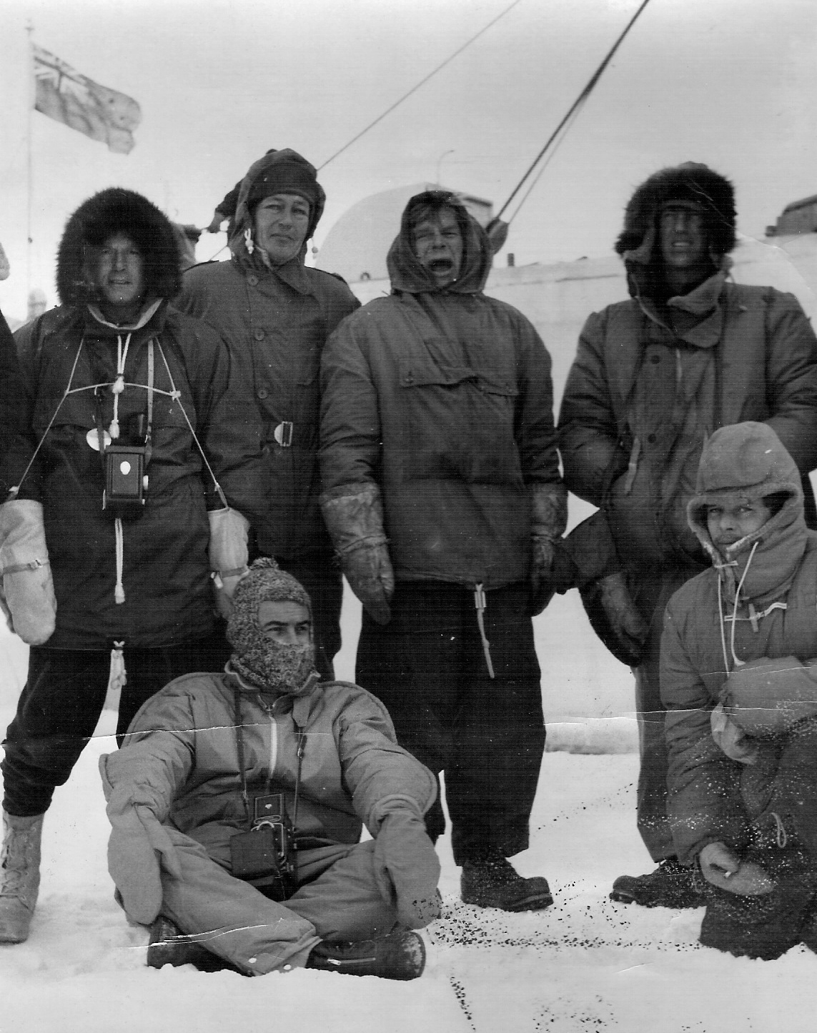 W. Stanley Moss behind Vivian Fuchs, Edmund Hillary and others, Scott Base, Antarctica, 1958. Commonwealth Trans-Antarctic Expedition.